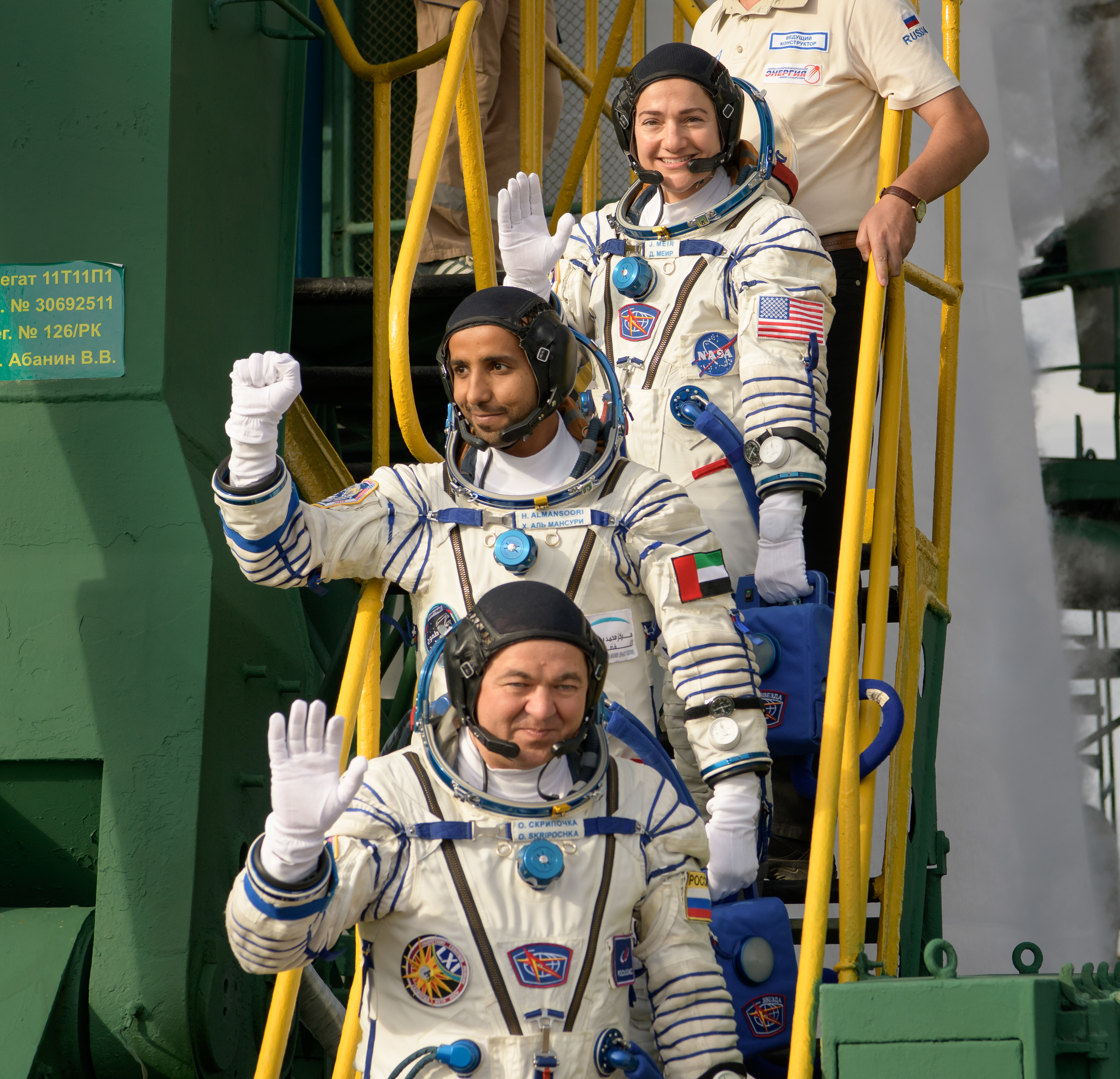 Expedition 61 astronaut Jessica Meir of NASA, top, spaceflight participant Hazzaa Ali Almansoori of the United Arab Emirates, center, and Expedition 61 cosmonaut Oleg Skripochka of Roscosmos, wave farewell prior to boarding the Soyuz MS-15 spacecraft for launch, Wednesday, Sept. 25, 2019 at the Baikonur Cosmodrome in Kazakhstan. Meir, Skripochka, and Almansoori will launch from the Baikonur Cosmodrome to the International Space Station.